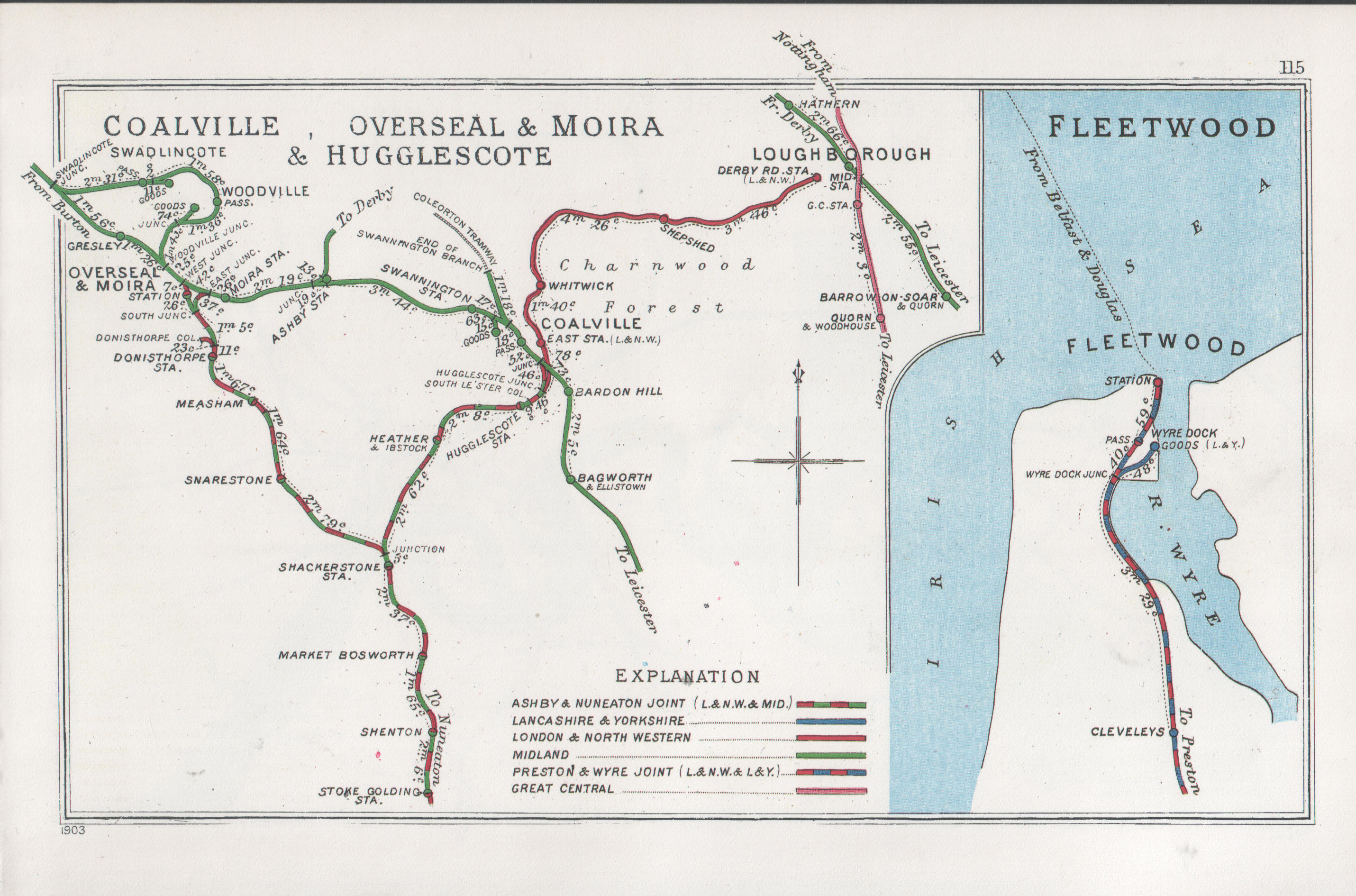 Railway Junctions in Coalville, Overseal & Moira & Hugglescote; Fleetwood pre grouping